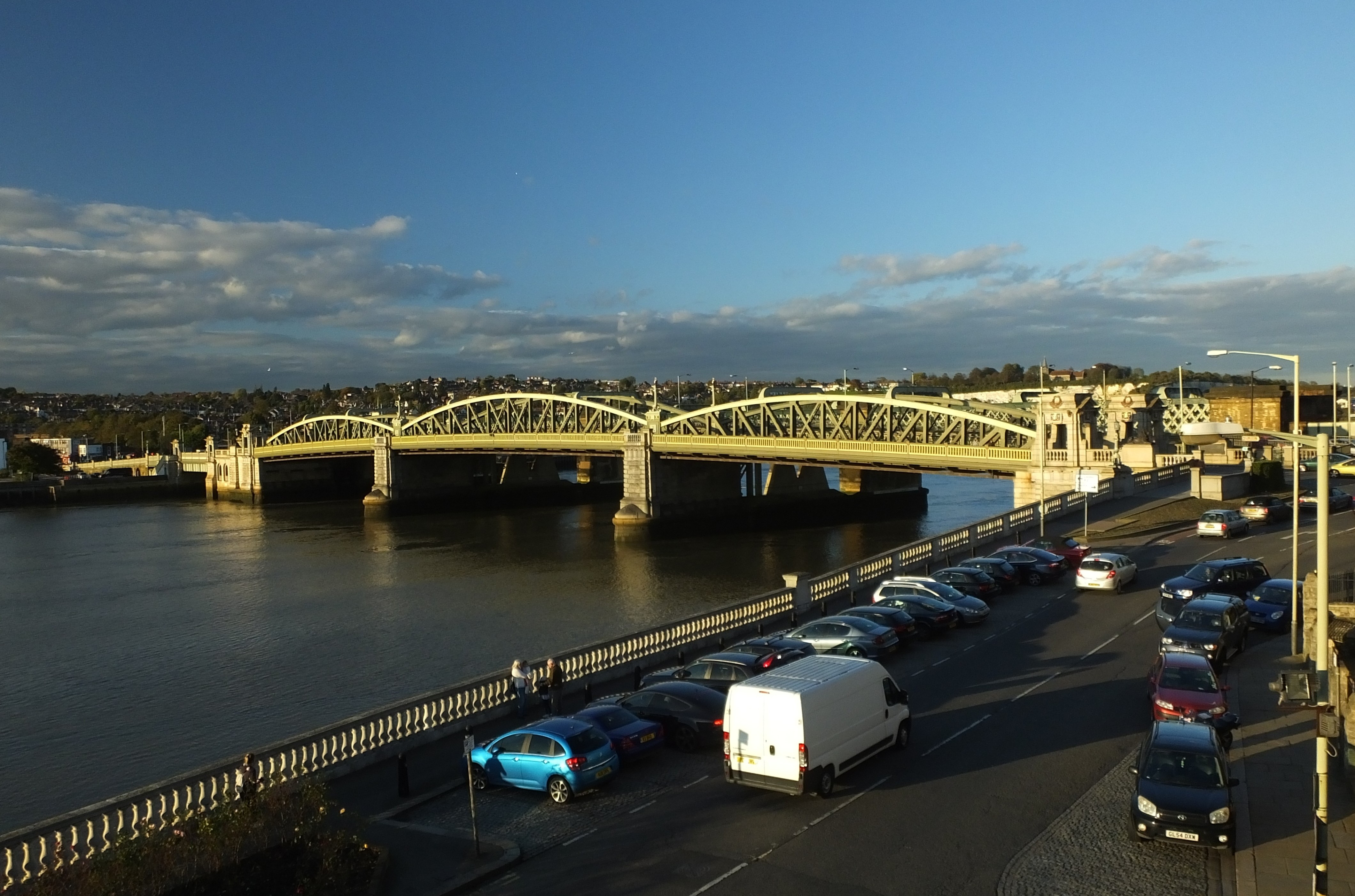 Collection of the Rochester Bridge in Rochester, Kent, with Strood and Frindsbury behind. Taken from Rochester Castle.